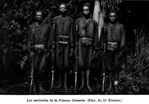 Photos extracted from Le Congo belge: notes and impressions, by René Vauthier